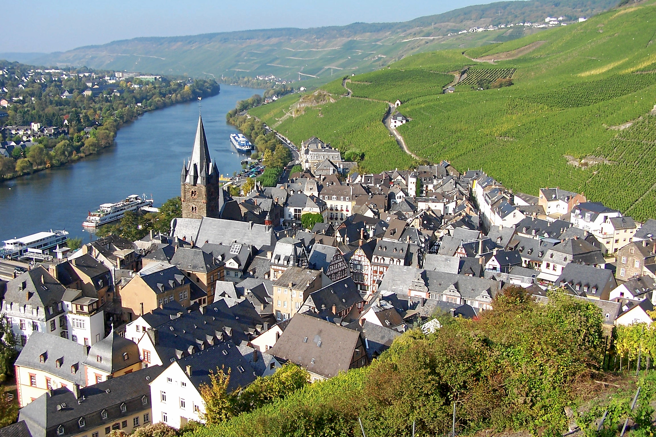 Bernkastel-Kues at the River Mosel in Germany